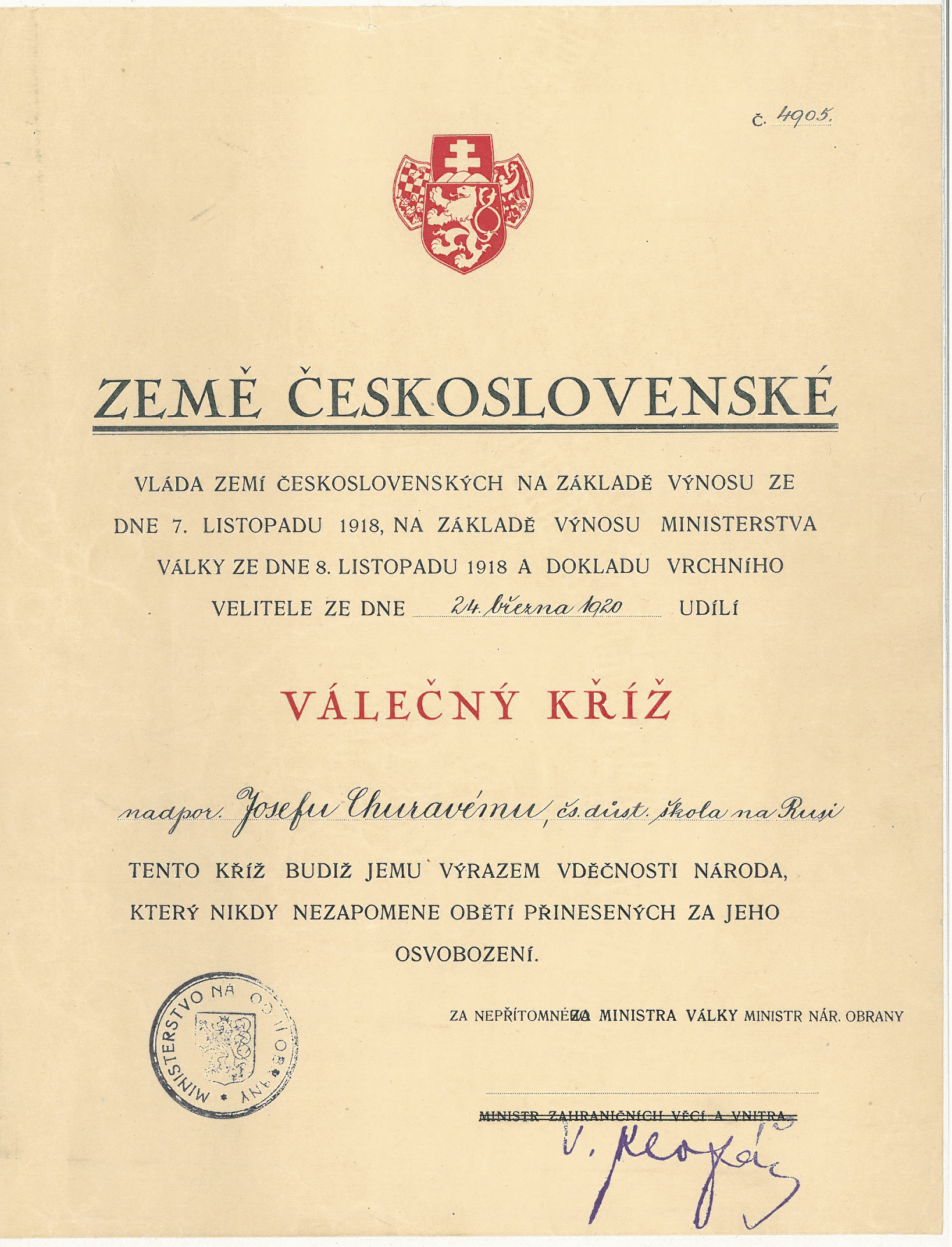 Honorary Documentary about the granting on the Czechoslovak War Cross 1914-1918 to Josef Churavý The government of the Czechoslovak countries, on the basis of the decree of November 7, 1918, on the basis of the decree of the Ministry of War dated November 8, 1918 and the Supreme Commander's document dated March 24, 1920, gives the "WAR CROSS" to Lieutenant Josef Churavý, the Czechoslovak Officer's School in Russia. This "War Cross" is an expression of gratitude of the nation, which will never forget the sacrifices dedicatored for his liberation. Signed (proxy the absent Minister of War) by Minister of National Defense Václav Klofáč